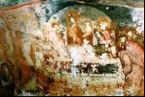 Fresco in the St. Virgin Mary Cave Church in Peštani, Macedonia